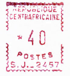 Meter stamp catalog image, Central African Republic type A3a